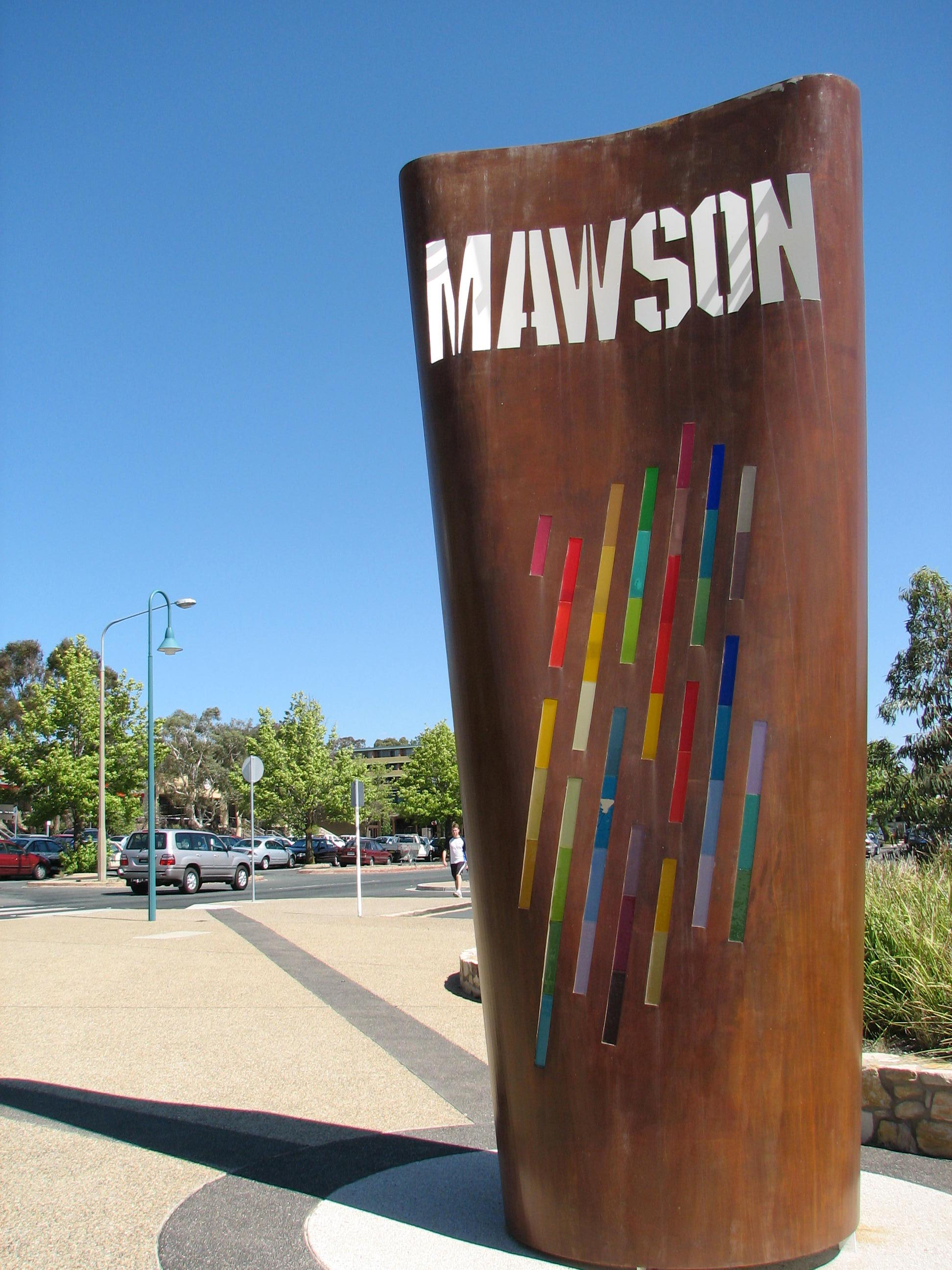 Sign outside the shopping centre in Mawson, Australian Capital Territory. Taken by me - Tim Malone - on 20th January 2007.